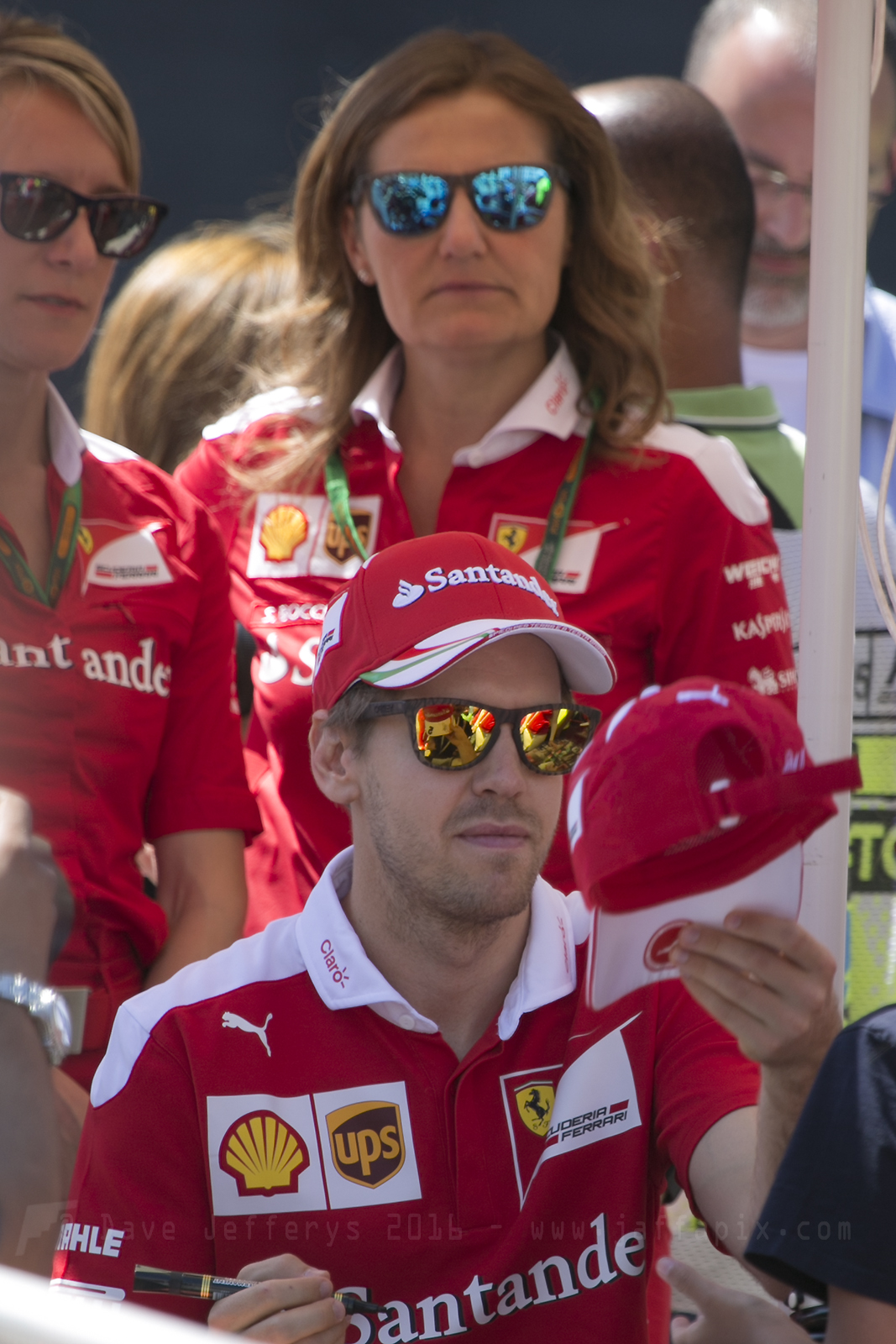 Sebastian Vettel at the 2016 Bahrain Grand Prix